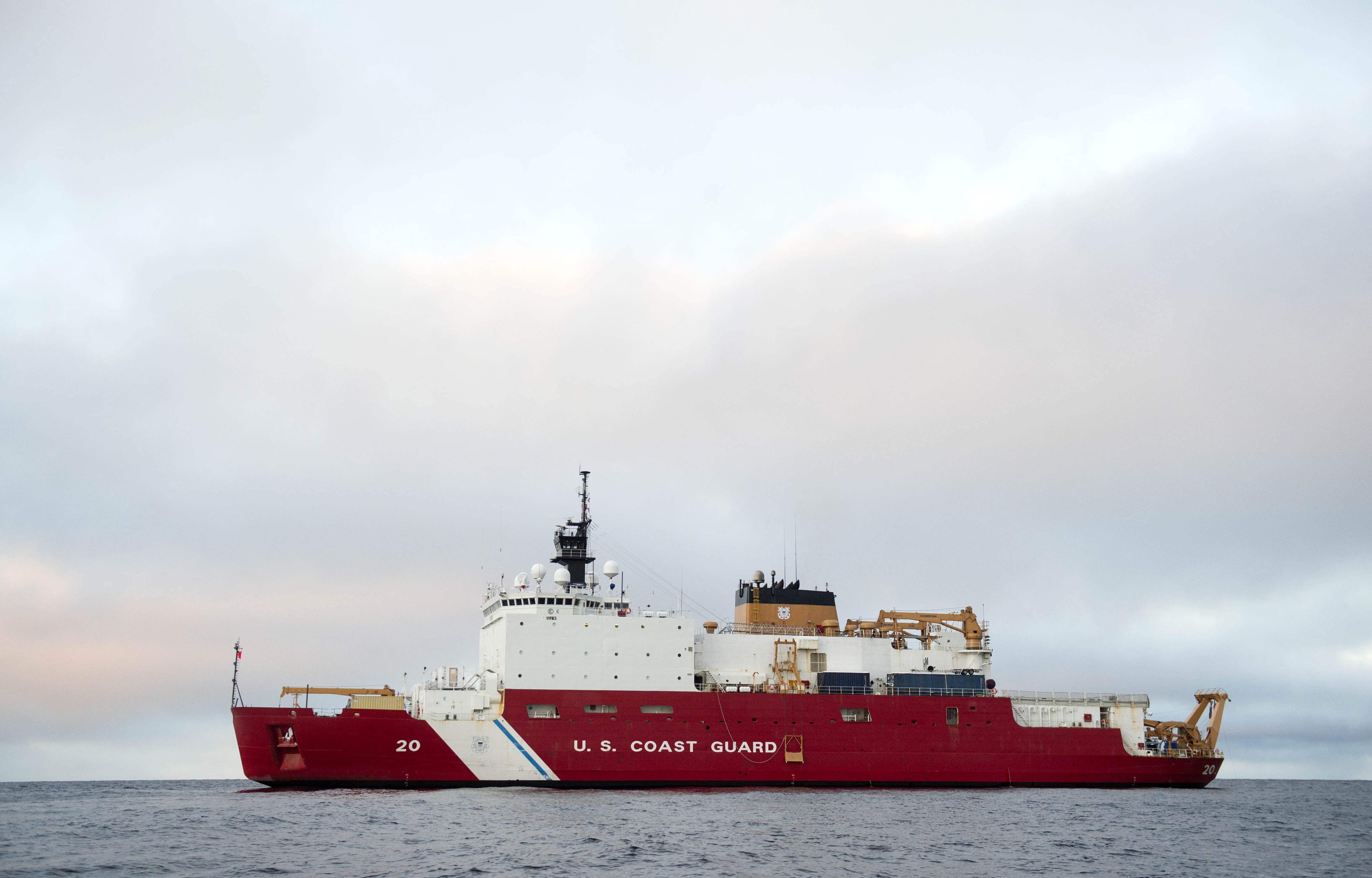 USCGC HEALY afloat in the Arctic Ocean.